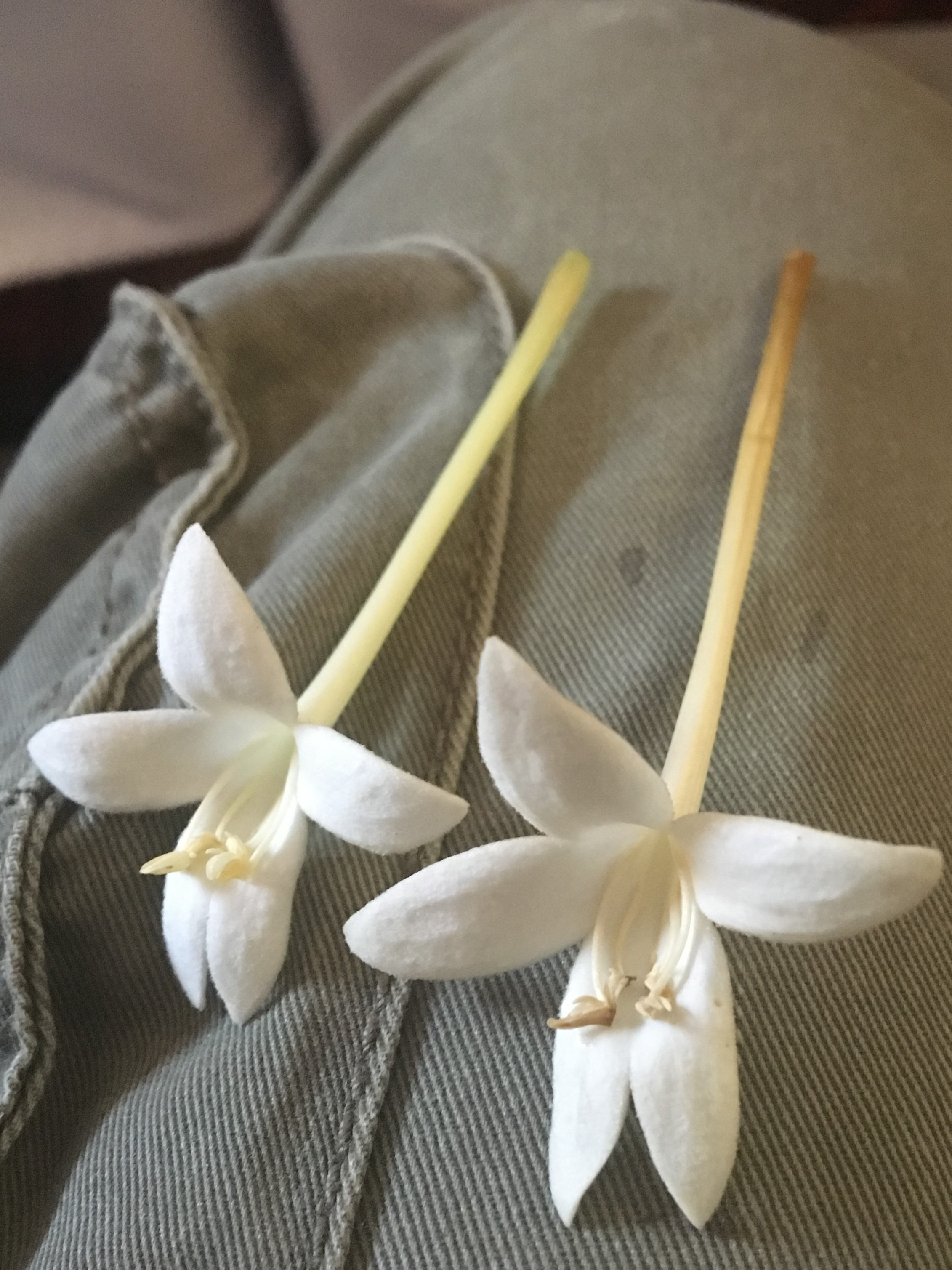 Flowers of Millingtonia